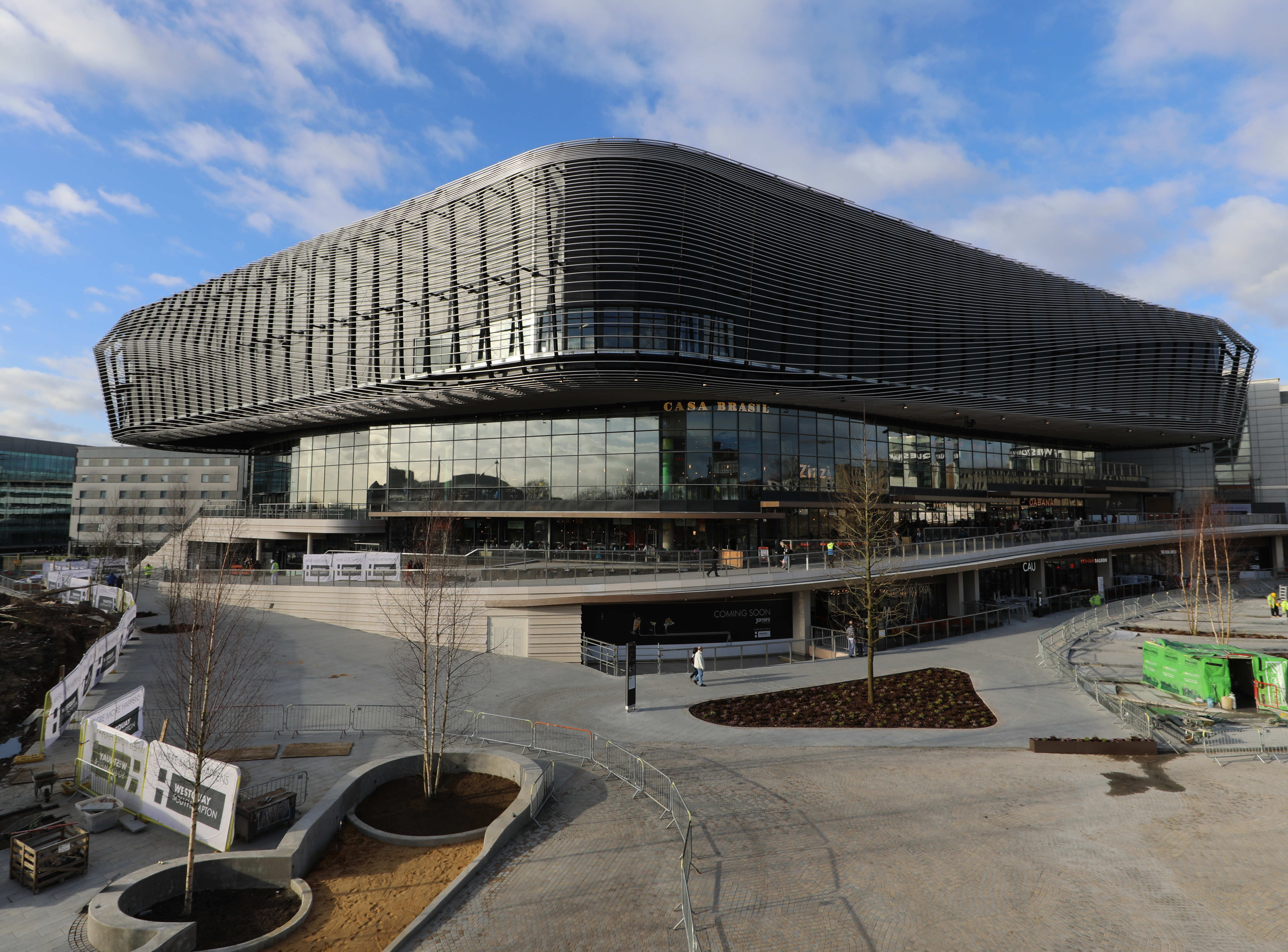 Photo of the Westquay South extension shortly after its opening but with some construction work still ongoing